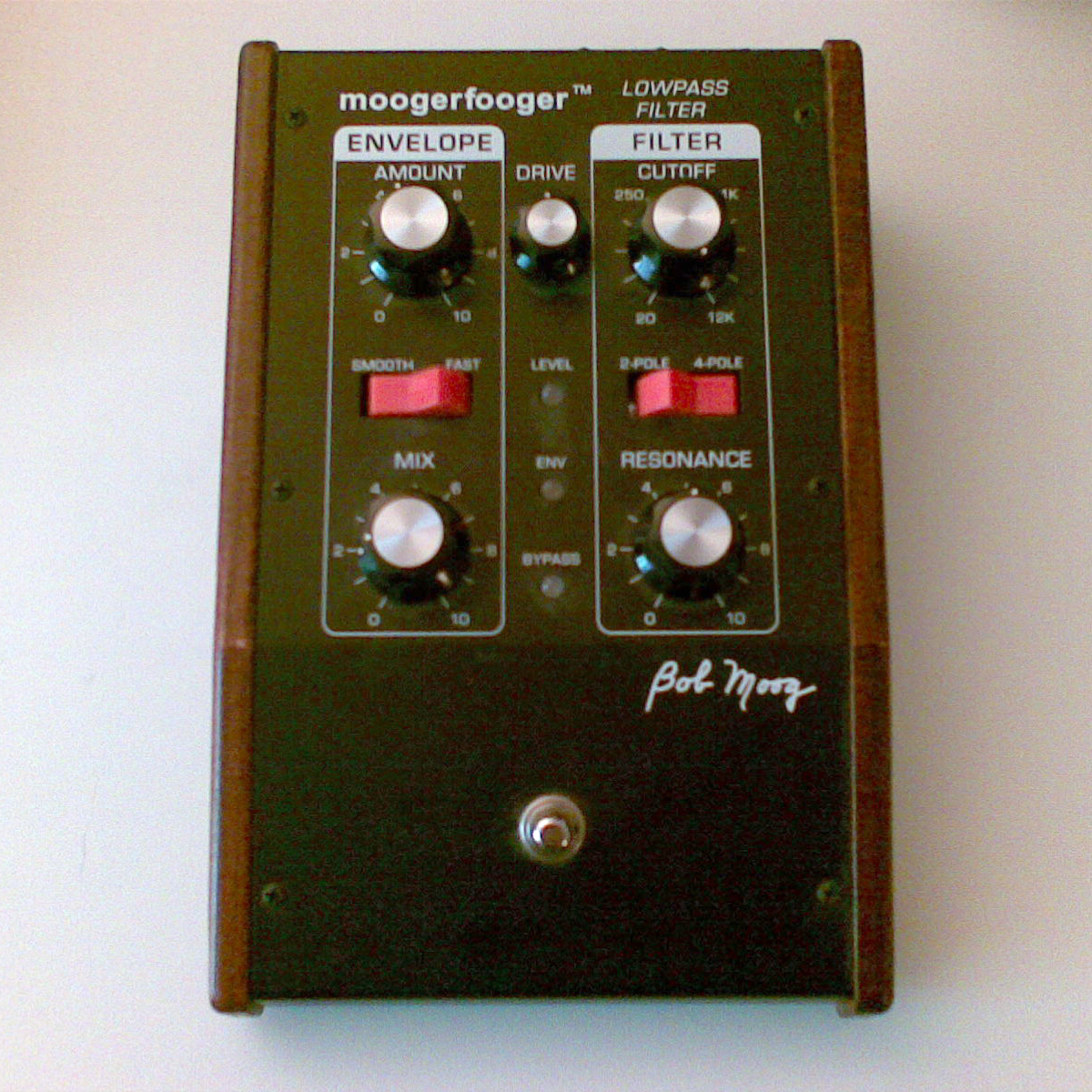 Taken at 1:05 PM on August 29, 2007 - cameraphone upload by ShoZu